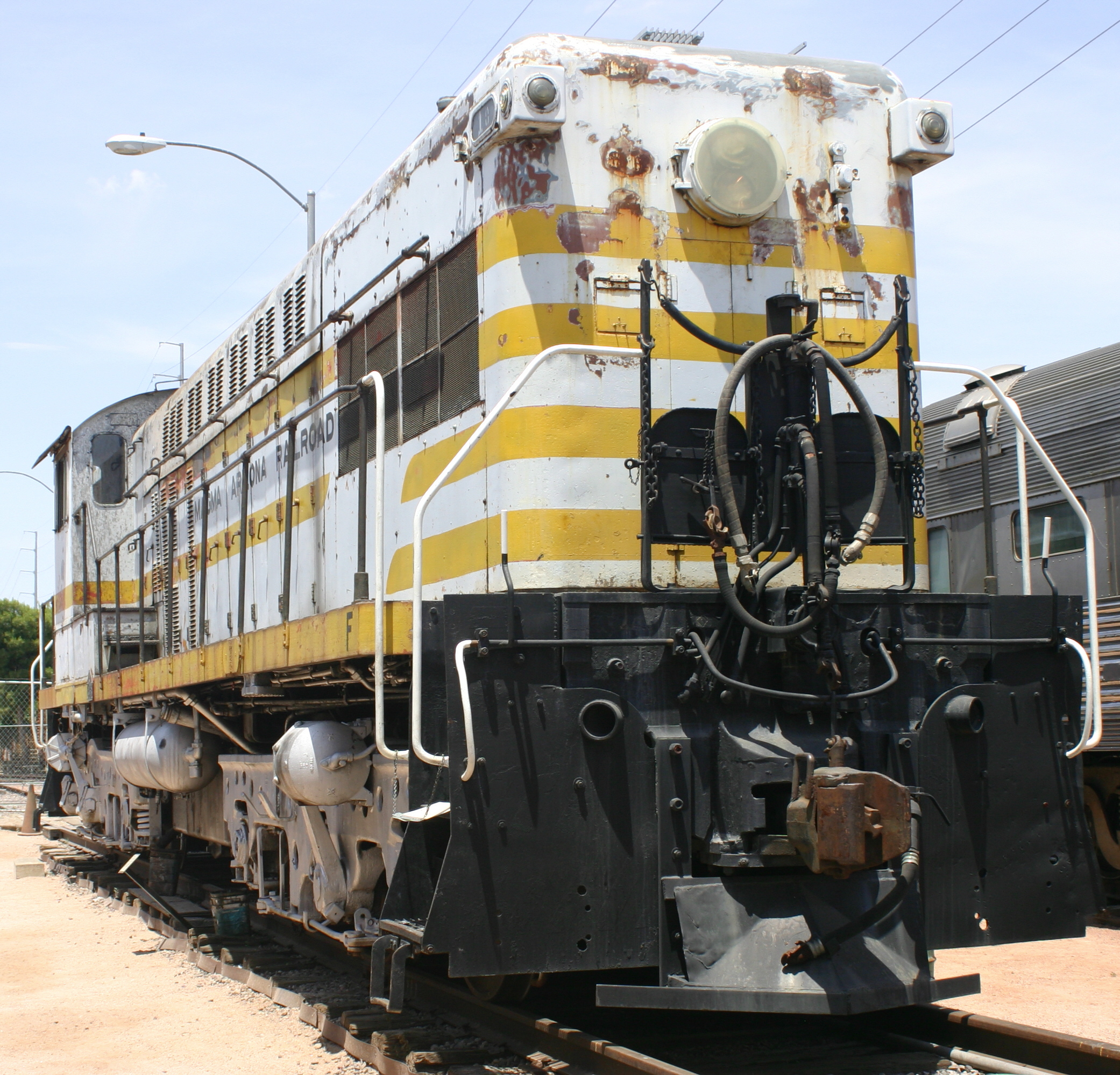 Magma Arizona Railroad, Engine #10, on display at the Arizona Railway Museum. Locomotives is a Baldwin DRS-6-6-1500 originally built for the McCloud River Railroad